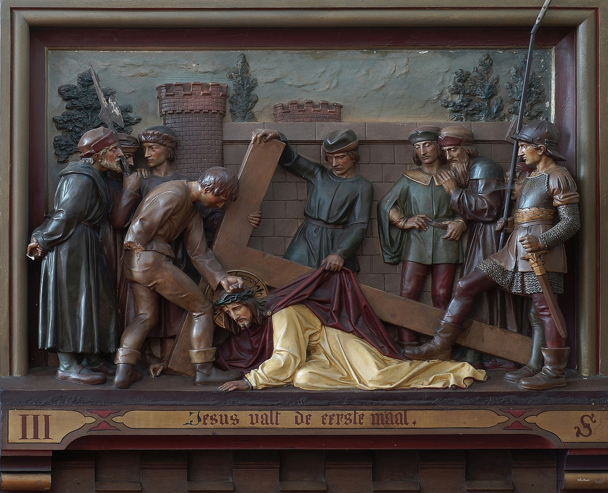 Saint Willibrord Church (Merksplas) - Way of Sorrows (Via Crucis) made by sculptor Frans de Vriendt